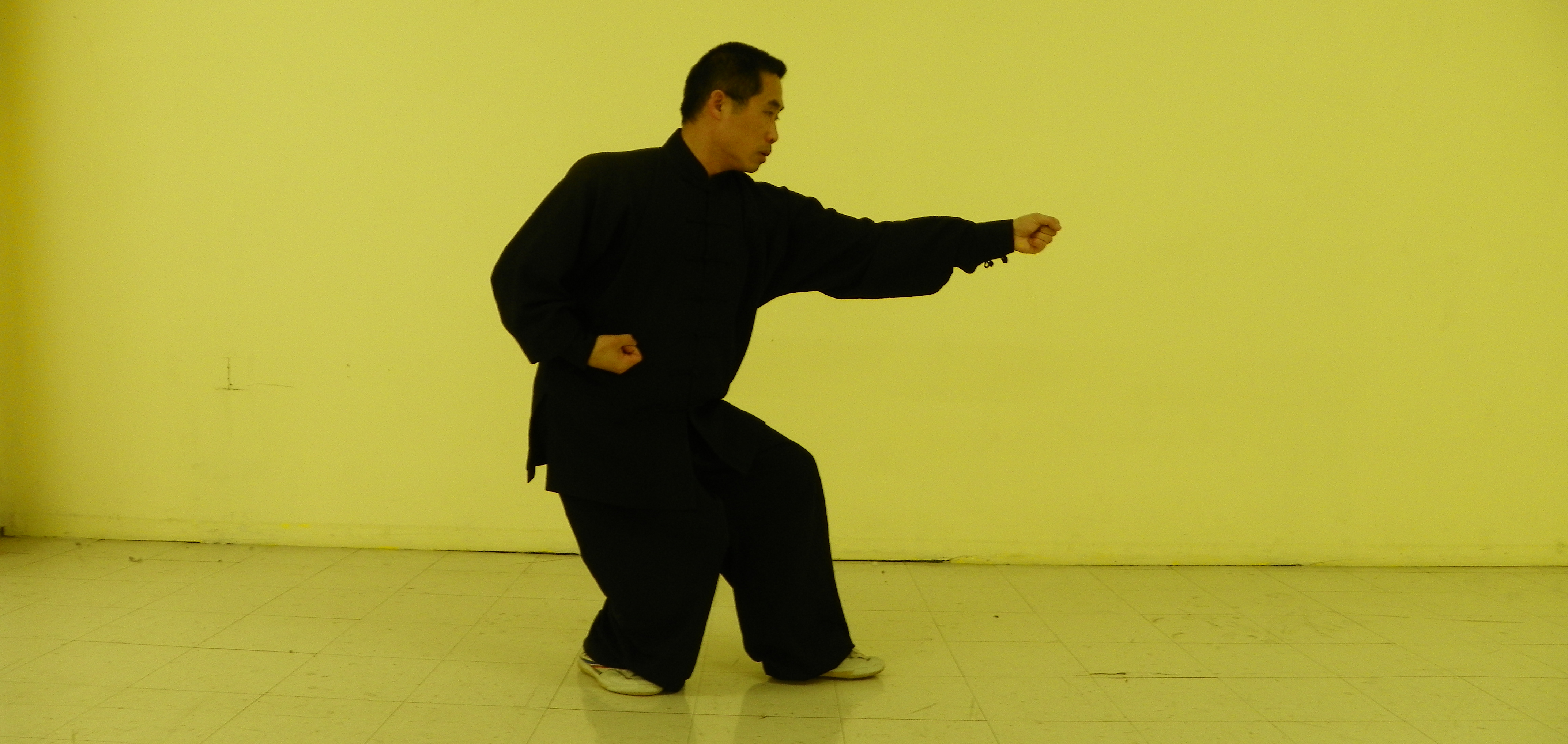 This is a photograph of Master Yang Hai of Montreal (Canada), demonstrating a variation of Beng Quan (崩拳) - one of the Five Fists (Wu Xing) of Xing Yi Quan.